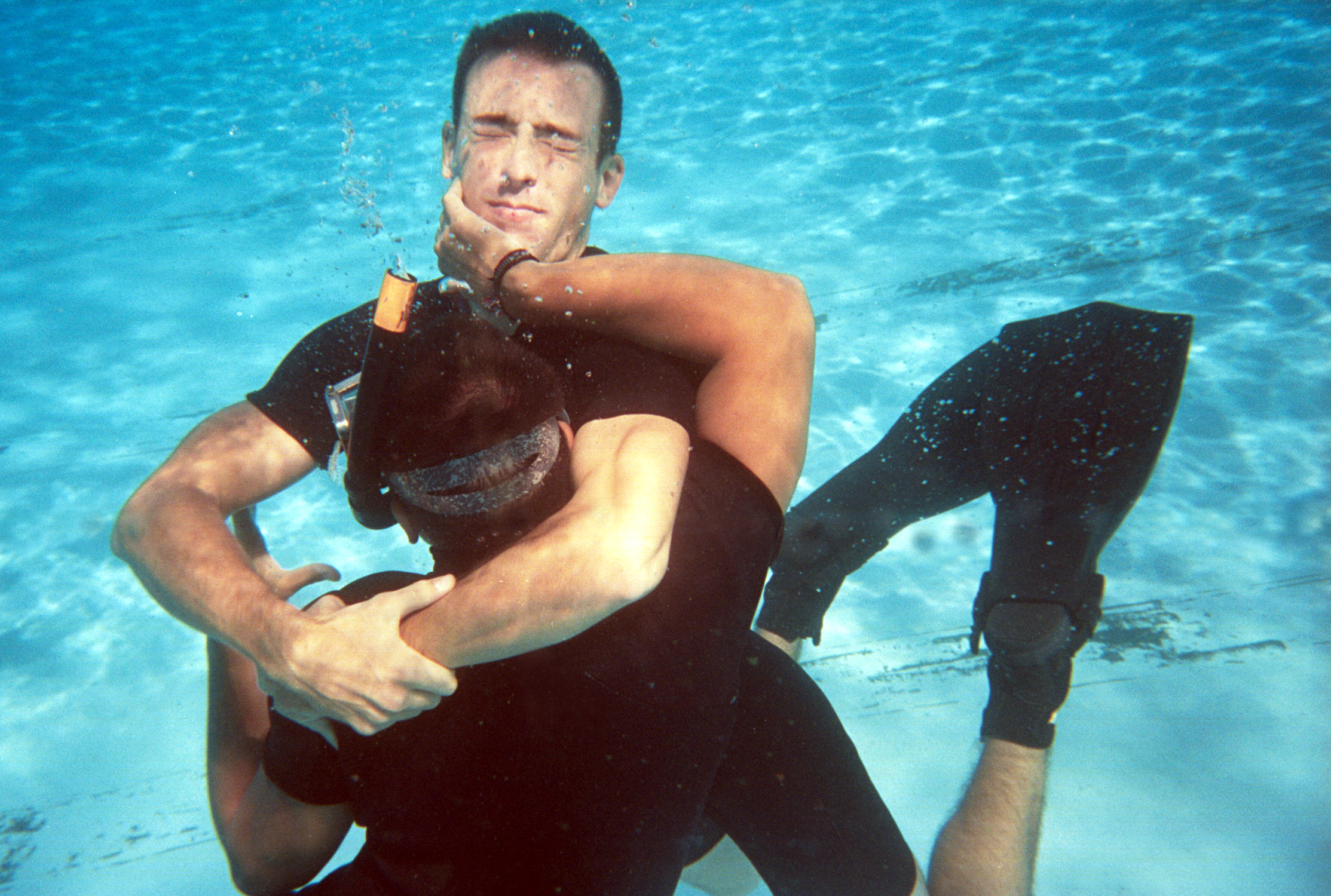 Lifeguard Training, Search and Rescue (SAR) swimmer, Fireman Brian W. Jobe, stationed aboard the guided missile destroyer USS Russell (DDG 59), grabs a fellow SAR swimmer during qualifications training. The Pearl Harbor-based SAR swimmers practice various types of escape and release maneuvers to prepare for rescues involving combative or panicky victims as well as helicopter, forecastle and rigid hull inflatable boat rescues. The swimming instructors, assigned to the Afloat Training Group, Middle Pacific (ATG MIDPAC), provide SAR proficiency training, 2nd class swim testing, and SAR candidate training. U. S. Navy photo by Photographer's Mate 1st William R. Goodwin.